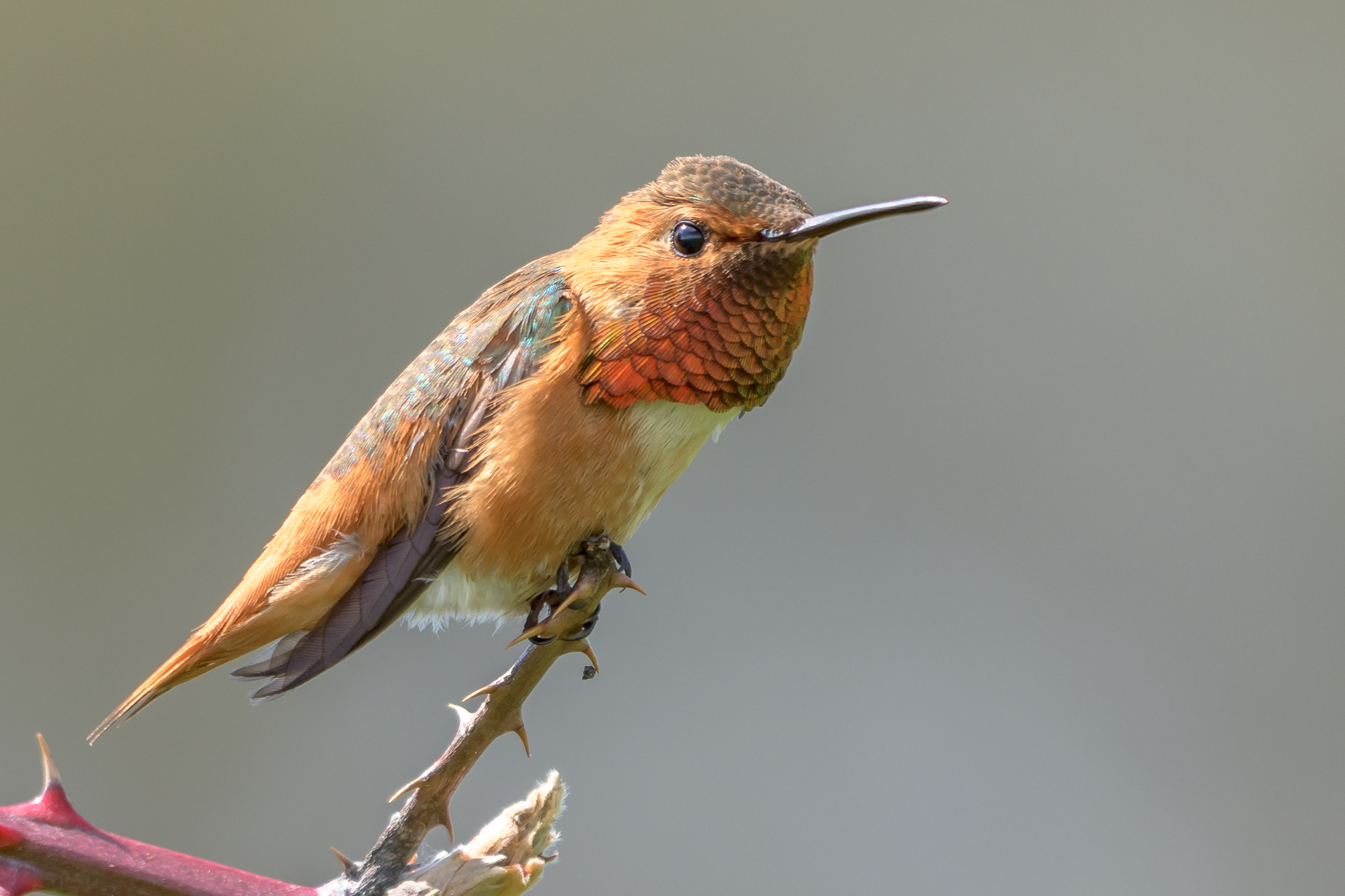 Point Pinole Regional Shoreline, Richmond, California Explored 5/05/18, Positions 124 - 170